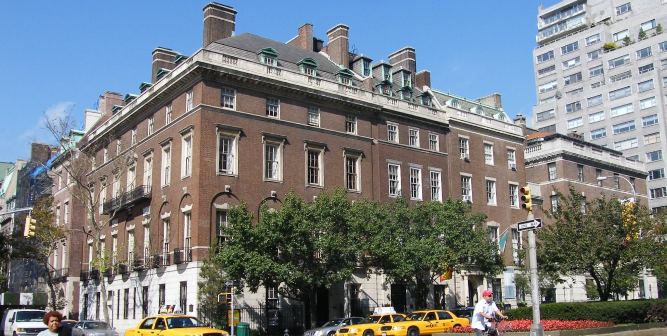 Looking northwest across Park and 68th at 690 Park Avenue, former Davison home, now Consulate General of Italy. See also File:682-690 Pk Av jeh.jpg